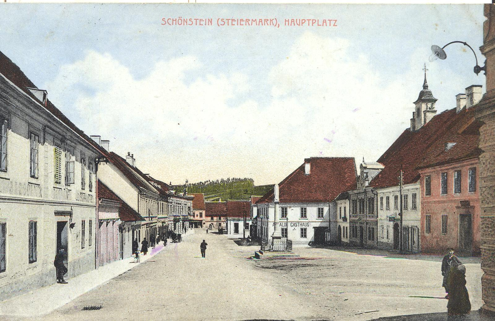 Postcard of Šoštanj.